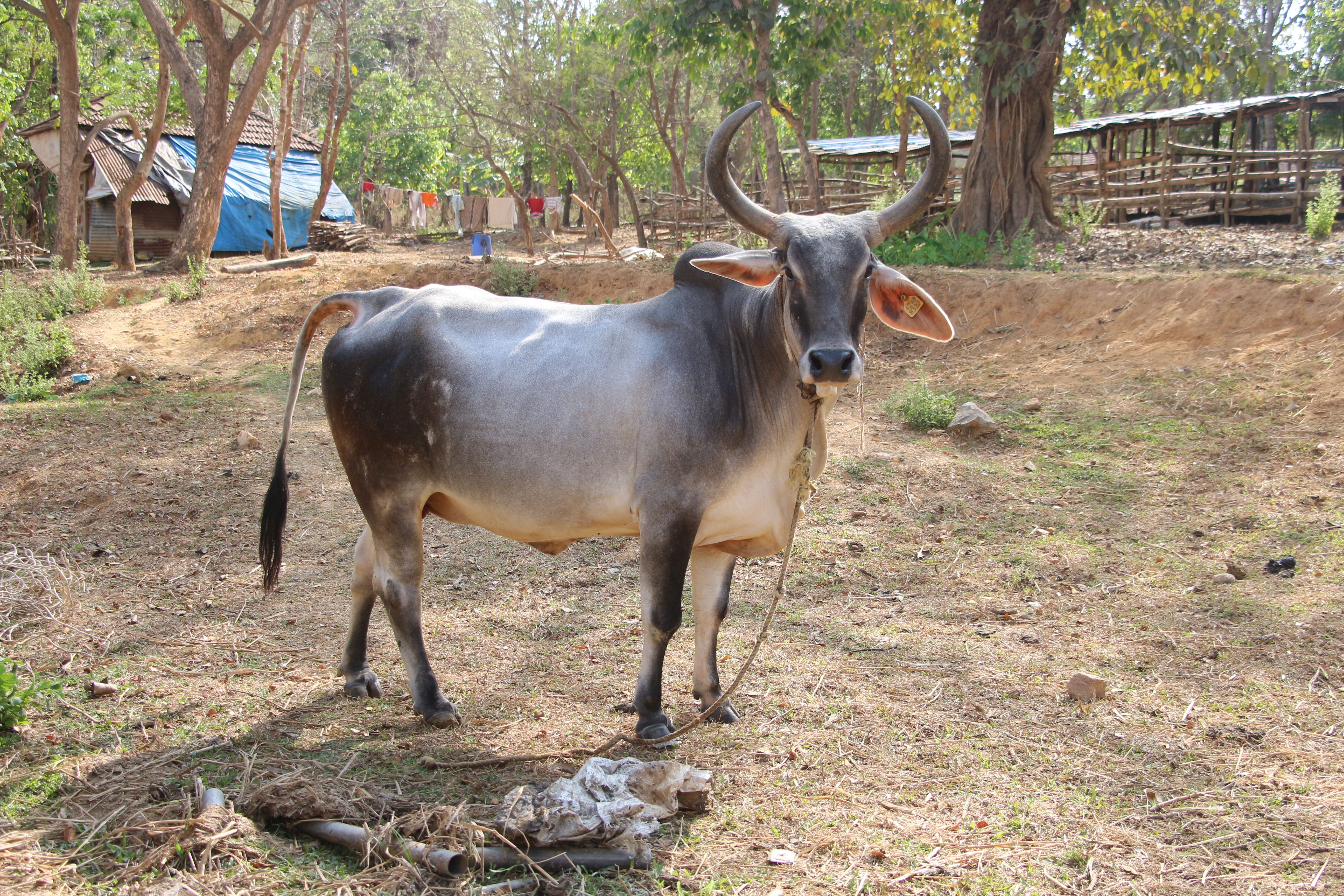 Indian cow breed Kankrej ಕನ್ನಡ: ಭಾರತೀಯ ಗೋತಳಿ ಕಾಂಕ್ರೇಜ್